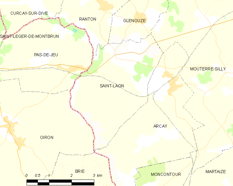 Map of French municipality Saint-Laon